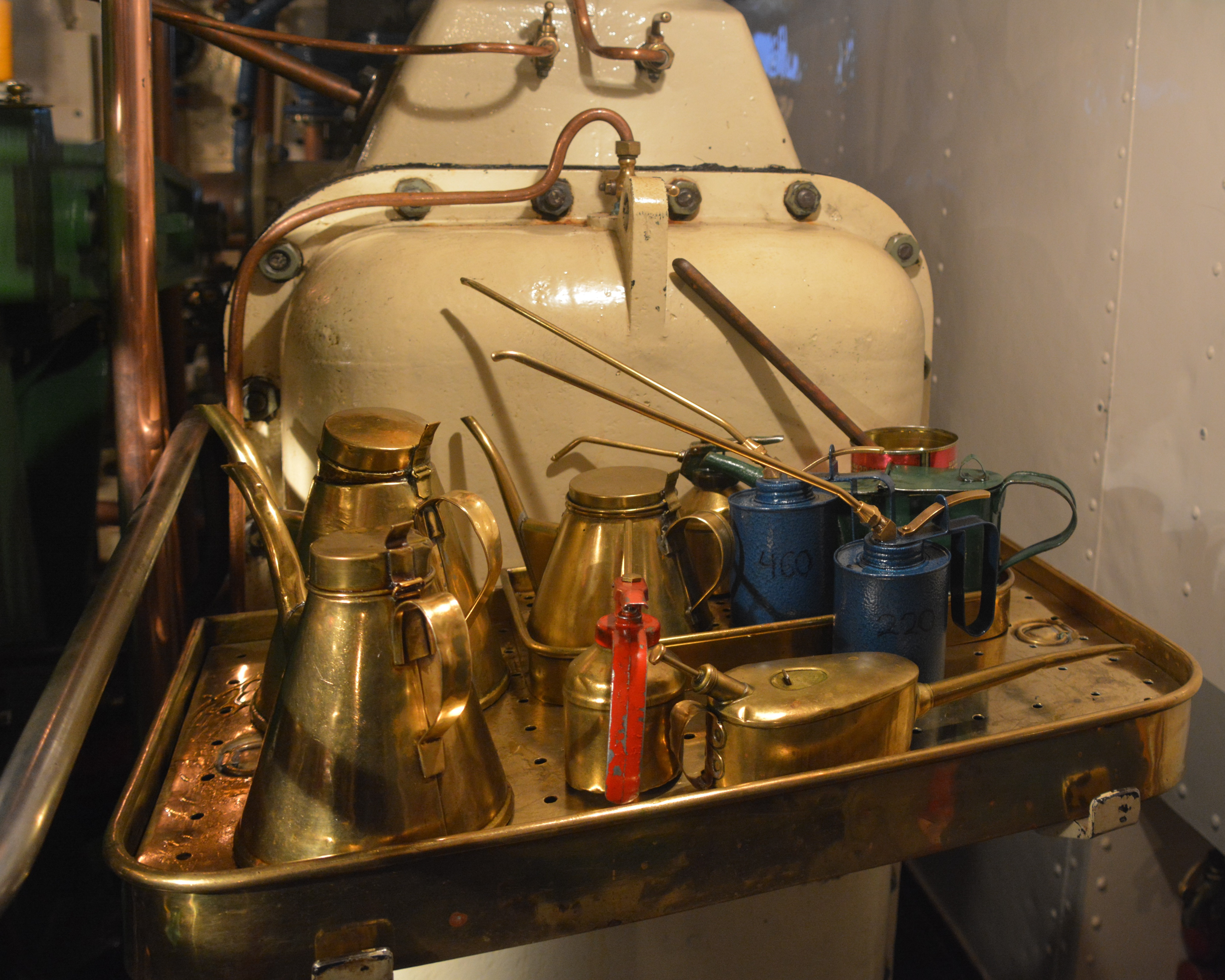 Oilcans in the engine room of SS Saltsjön, Stockholm, Sweden